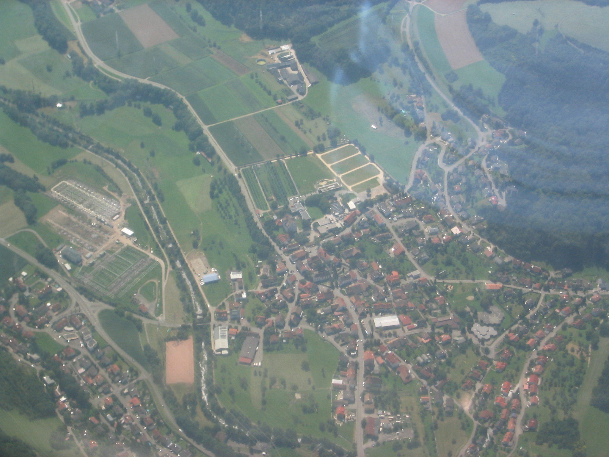 Aerial view of Gurtweil, part of Waldshut-Tiengen (Baden-Württemberg, Germany); left: Gurtweil substation